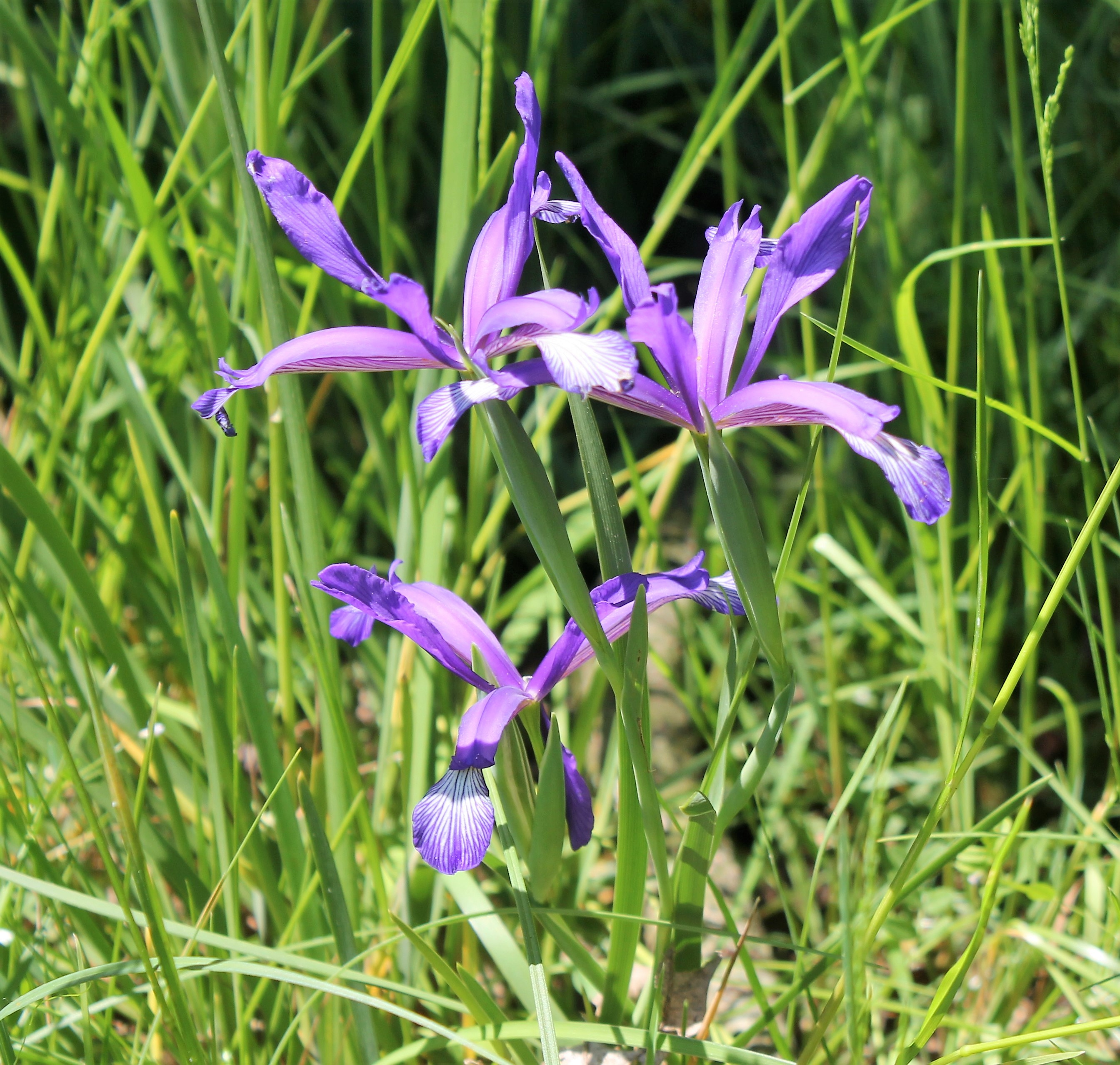 Iris sintenisii stem